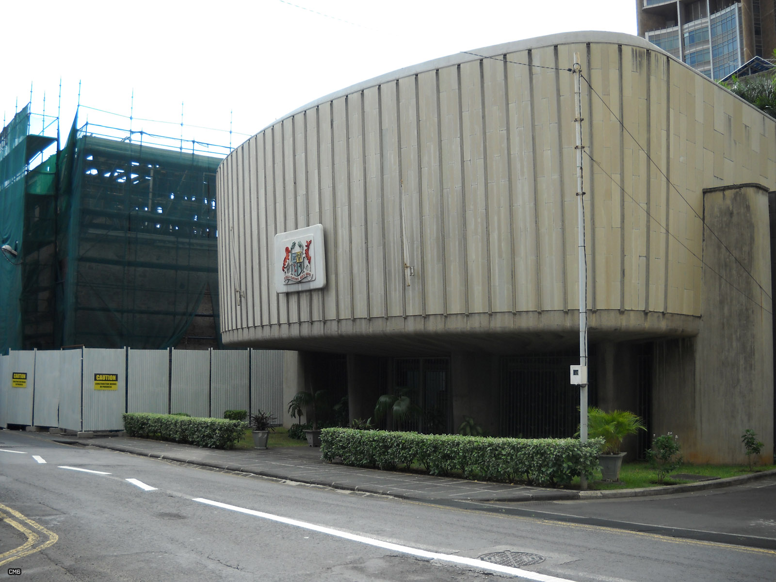 National Assembly